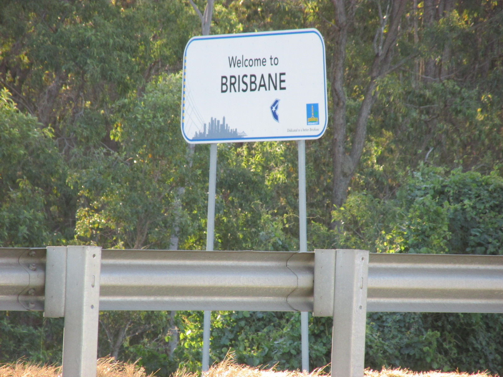 City of Brisbane - welcome sign - Mount Lindesay Highway (Beaudesert Road), Parkinson, Queensland.